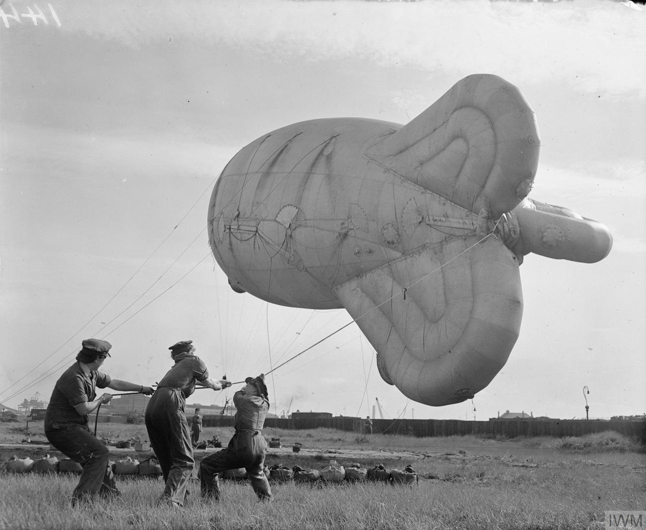 Royal Air Force Balloon Command, 1939-1945. WAAFs hauling in a kite balloon at a coastal site.